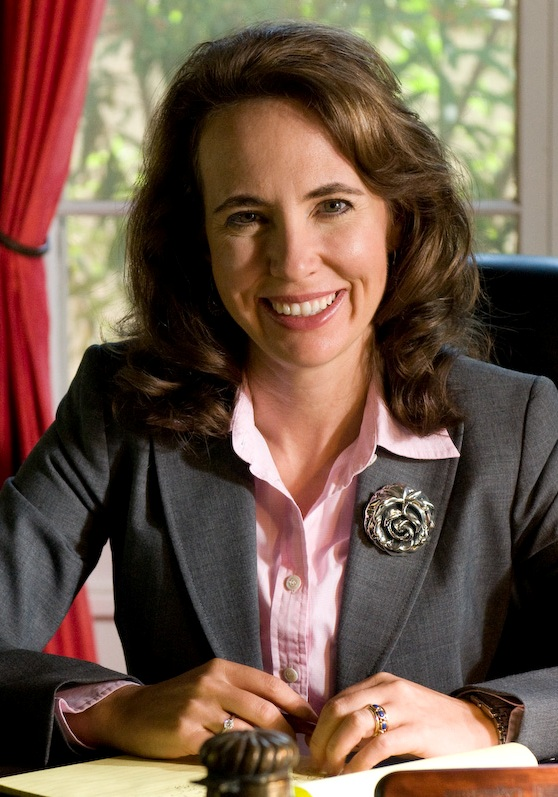 United States Congresswoman Gabrielle Giffords at her desk.